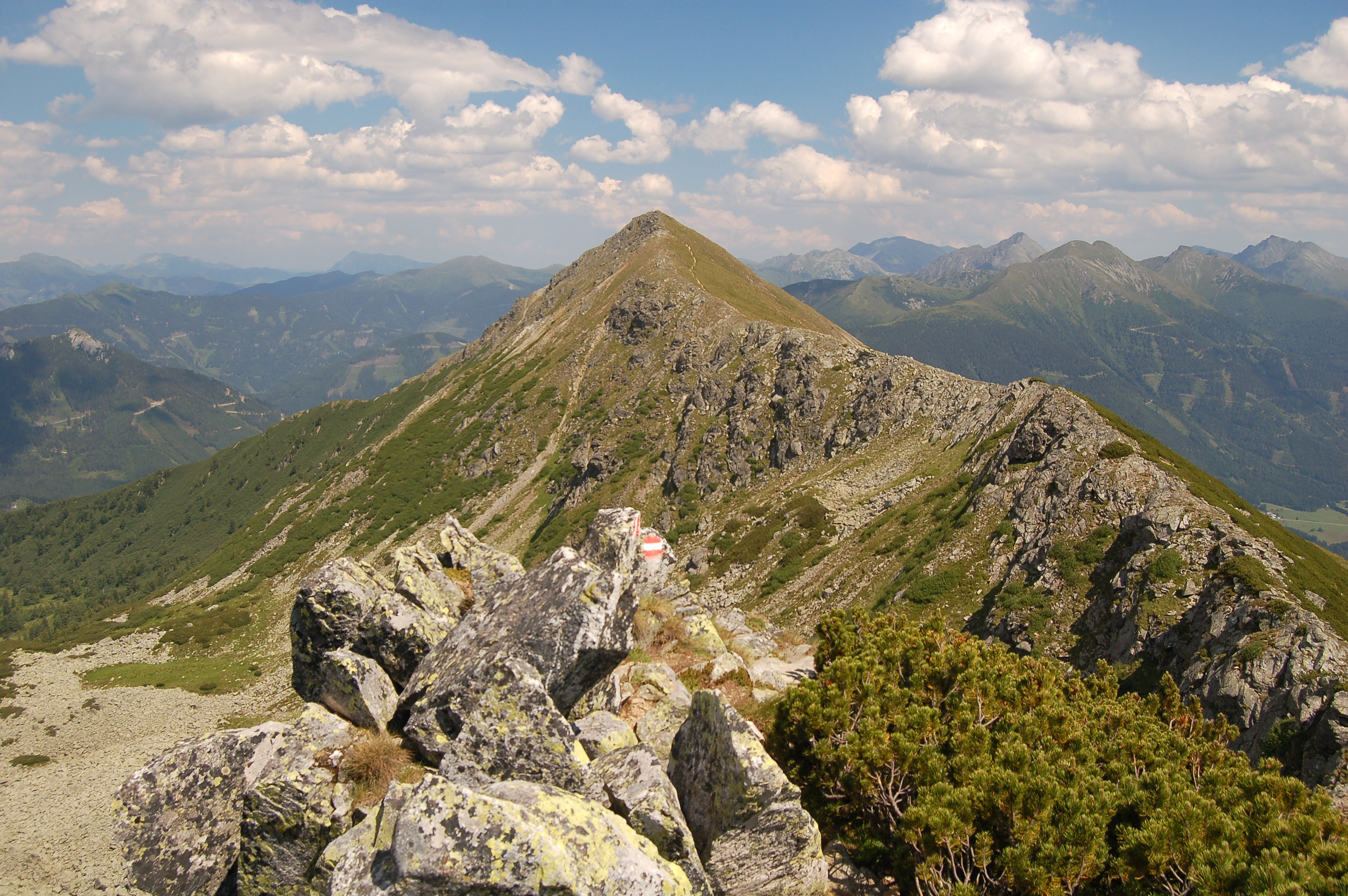 Großer Hengst (2159m), seen from Kleiner Bösenstein.